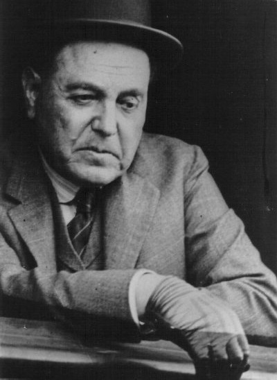 Description: Hipolito Irigoyen at train's window. 1926